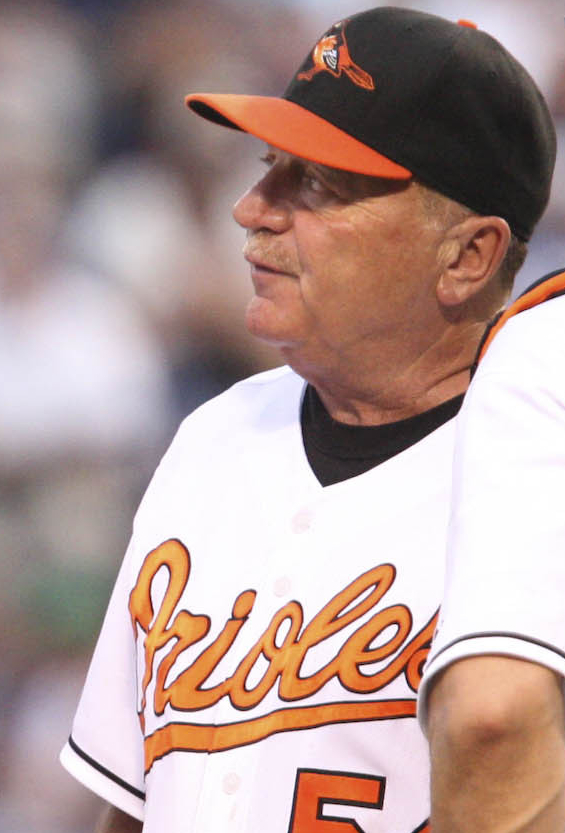 Baltimore Oriole pitching coach Leo Mazzone talks with Daniel Cabrera during the fifth inning of a game against the New York Yankees on June 28, 2007